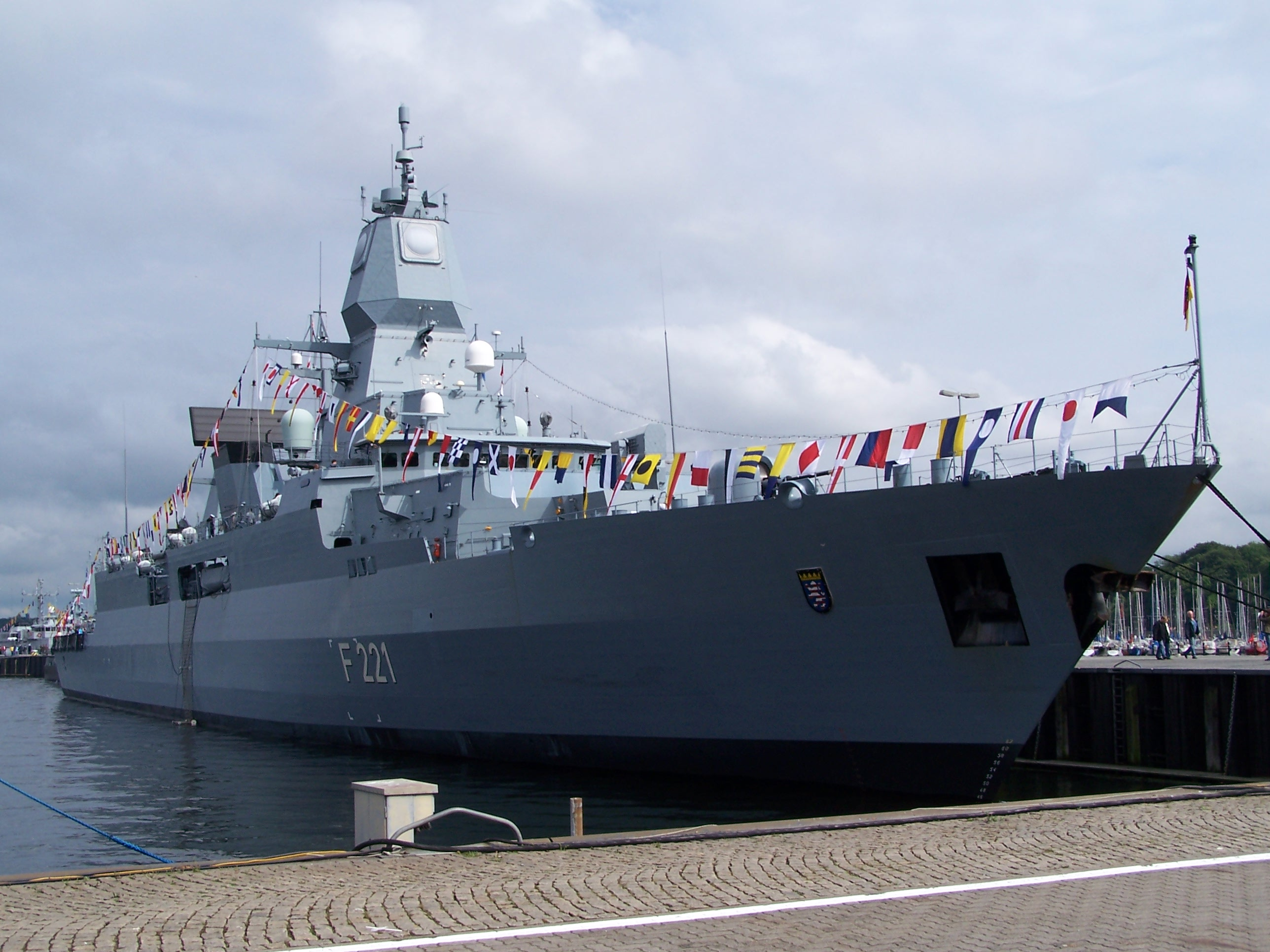 F221 Hessen "open ship" during the Kiel Week, June 16th, 2007.